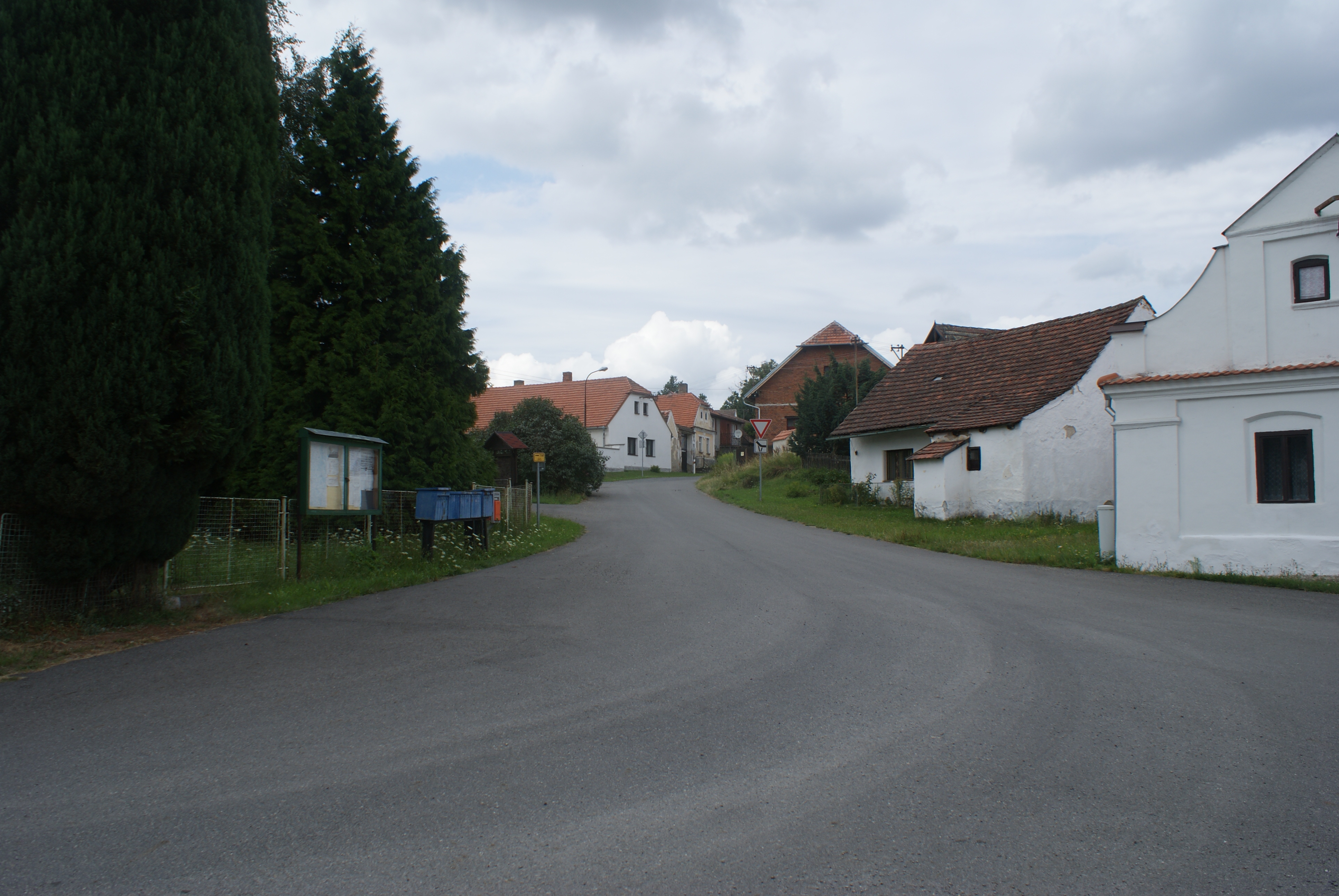 Holušice (Sedlice), a village in Strakonice District, Czech Republic, the village common.